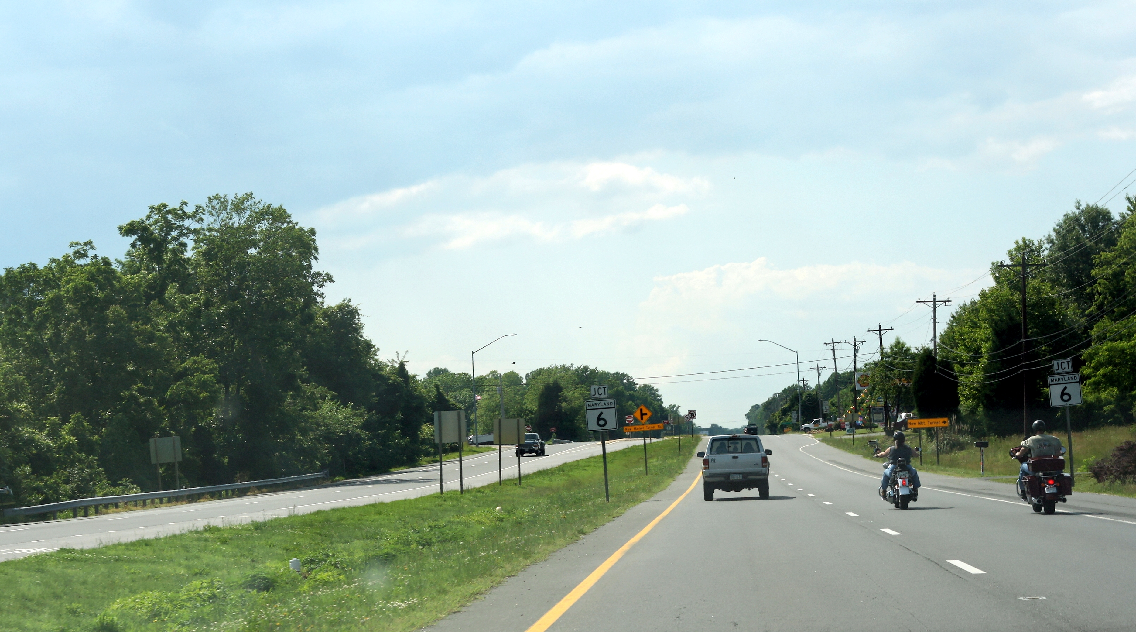 Shot of Maryland State Route 235 (Three Notch Rd), heading northbound in St. Mary's County in Southern Maryland. This is just before the intersection with MD 6 (New Market Turner Road).